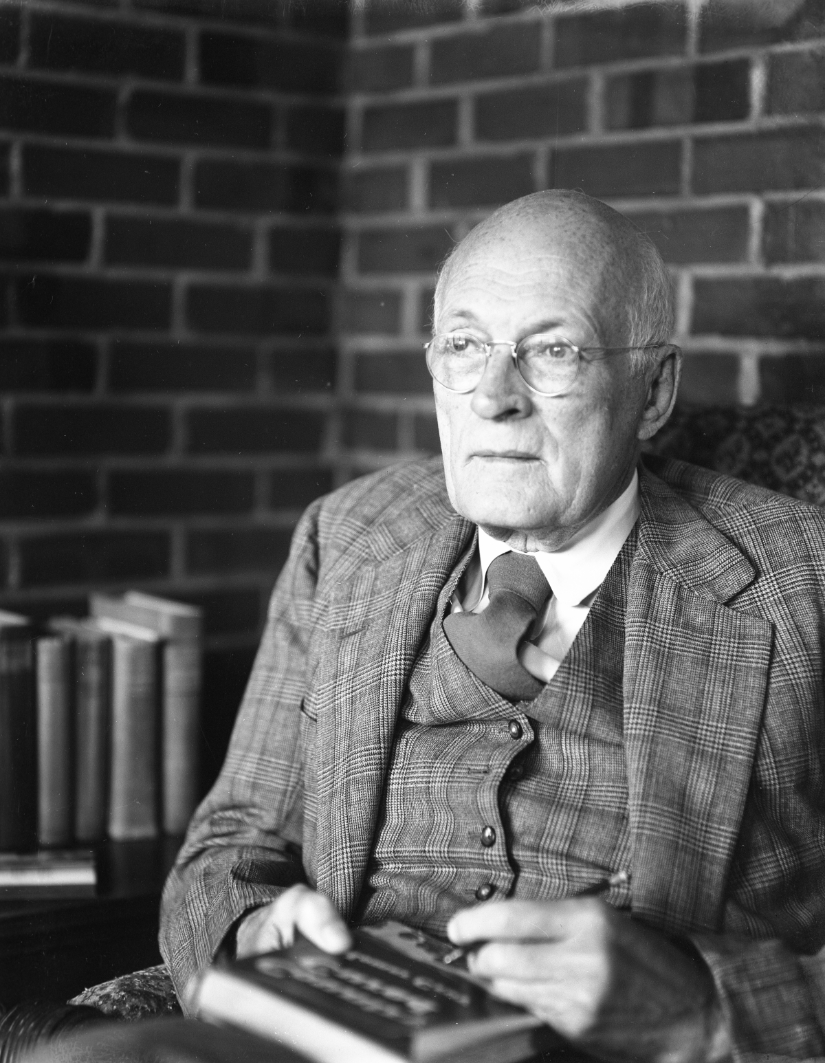 Portrait of author and playwright Homer Croy.